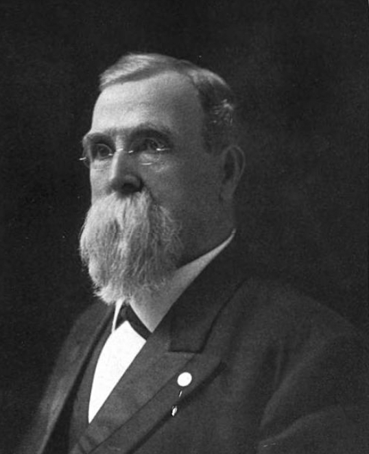 Photograph of Ivory George Kimball, a judge on the District of Columbia Police Court, taken in 1909.